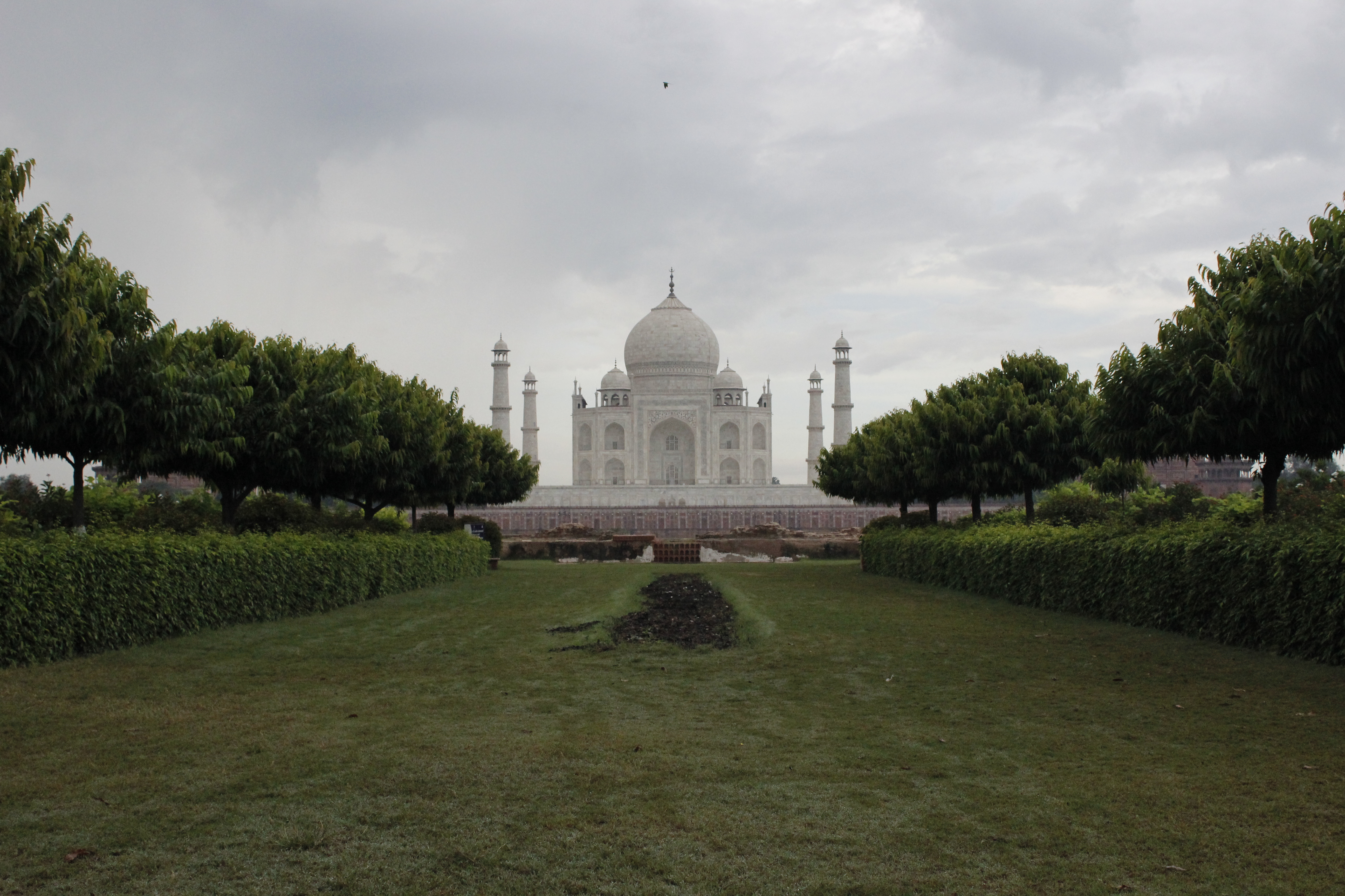 The View of taj from Mahtab Bagh, Agra